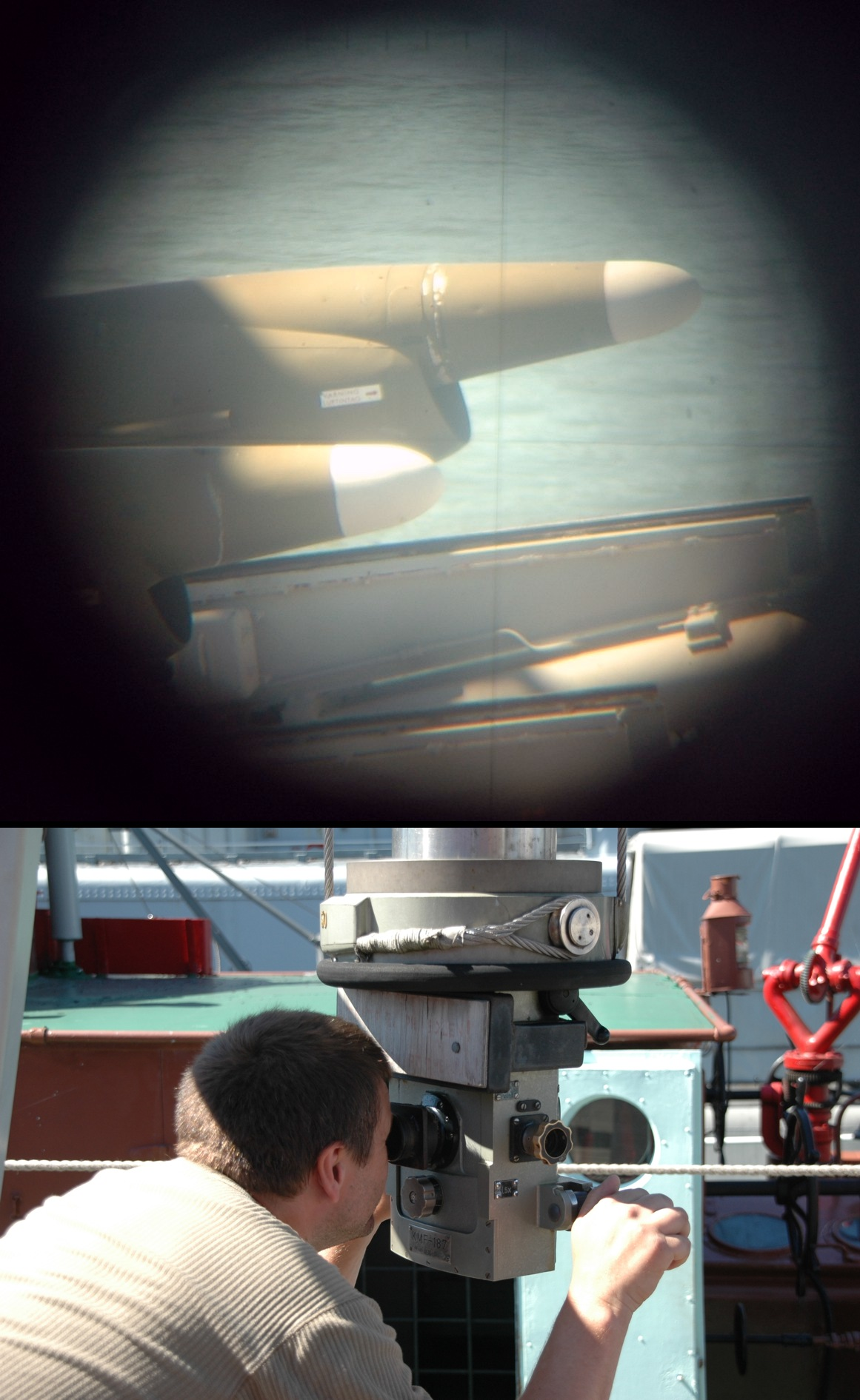 Demonstration periscope in the ship museum in Gothenburg. Person looking in the periscope and view through the periscope (here only a small circle is visible due to the camera, which couldn't get closer).